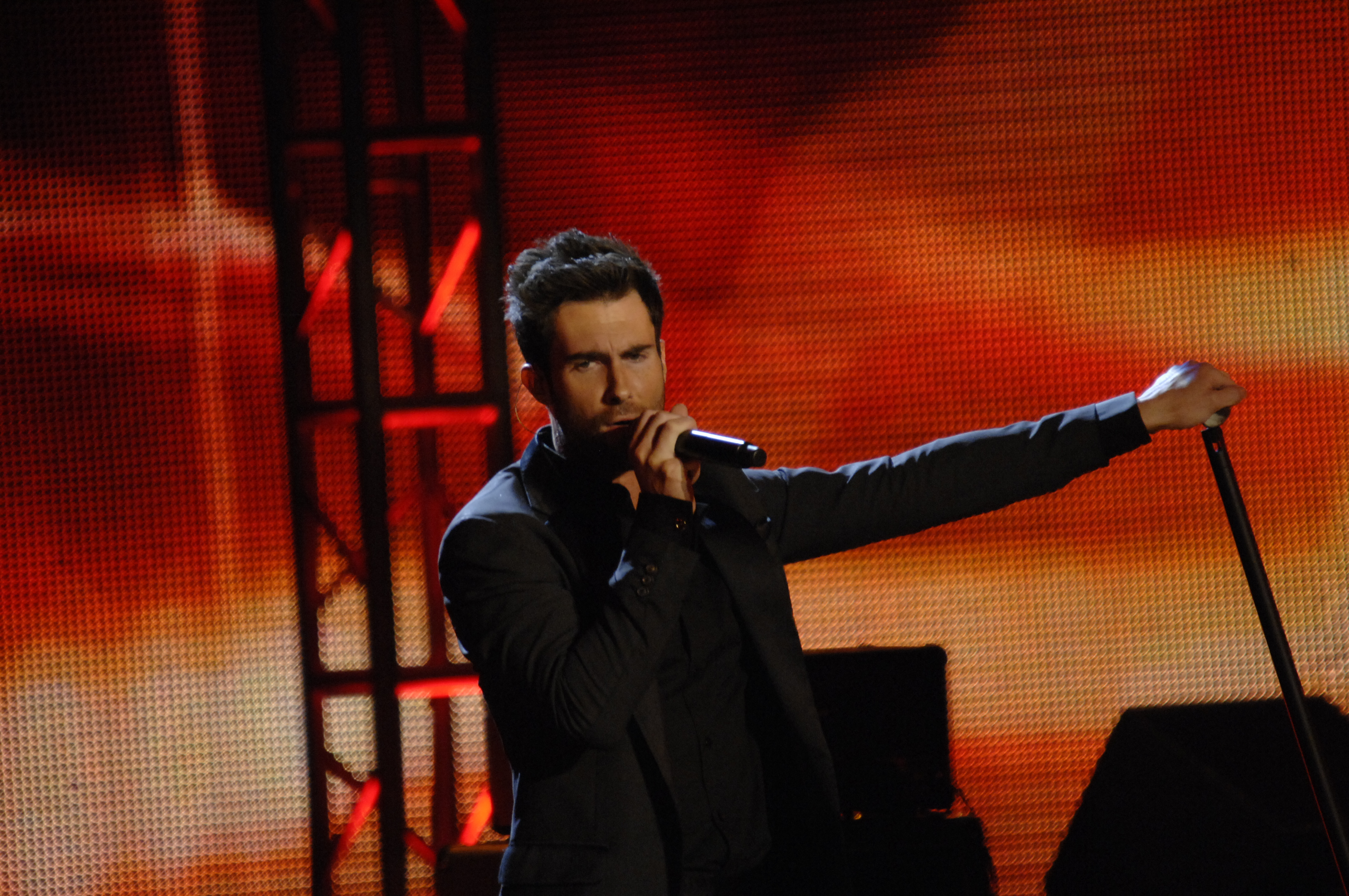 Adam Levine from Maroon 5 performs at the Neighborhood Ball in downtown Washington, D.C.